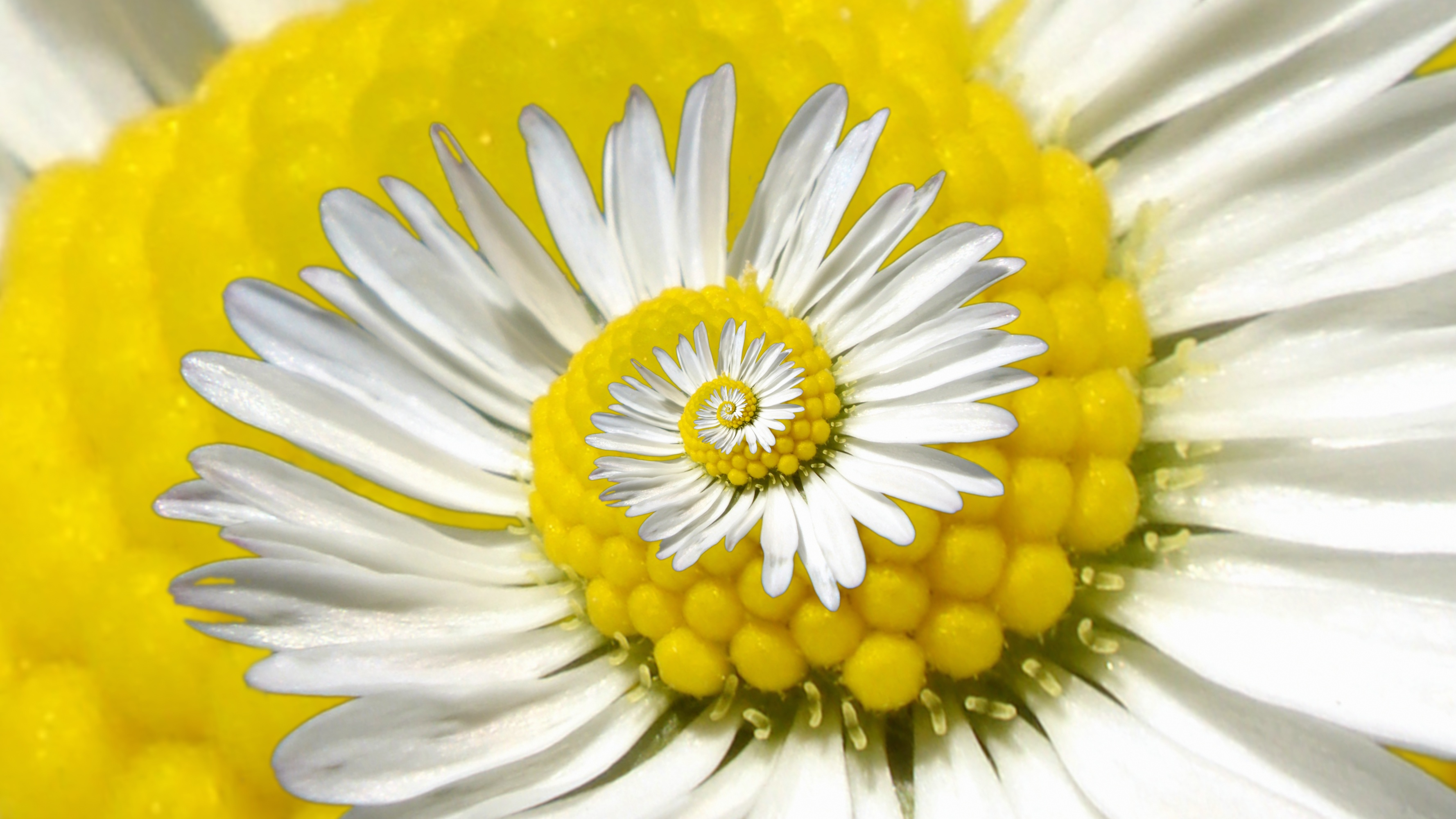 Recursive image illustrating the Droste effect. Created using the mathmap pluging for GIMP. Author's description: Inspiration here, mathematics here, original picture here. Part of my Recursion set.